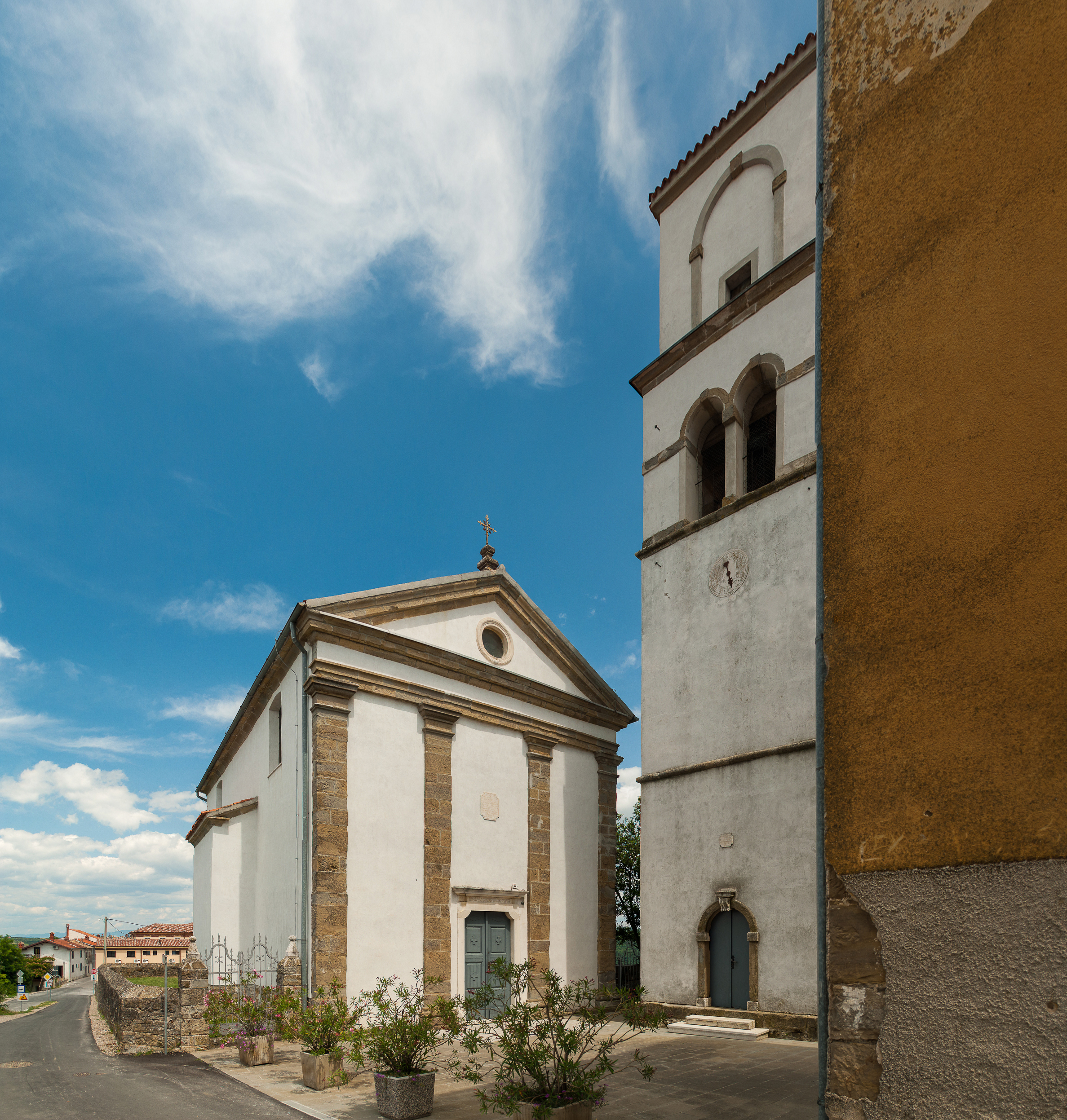 Church of St. Anton the Hermit in KorteSlovenščina: Cerkev sv. Antona Puščavnika v Kortah